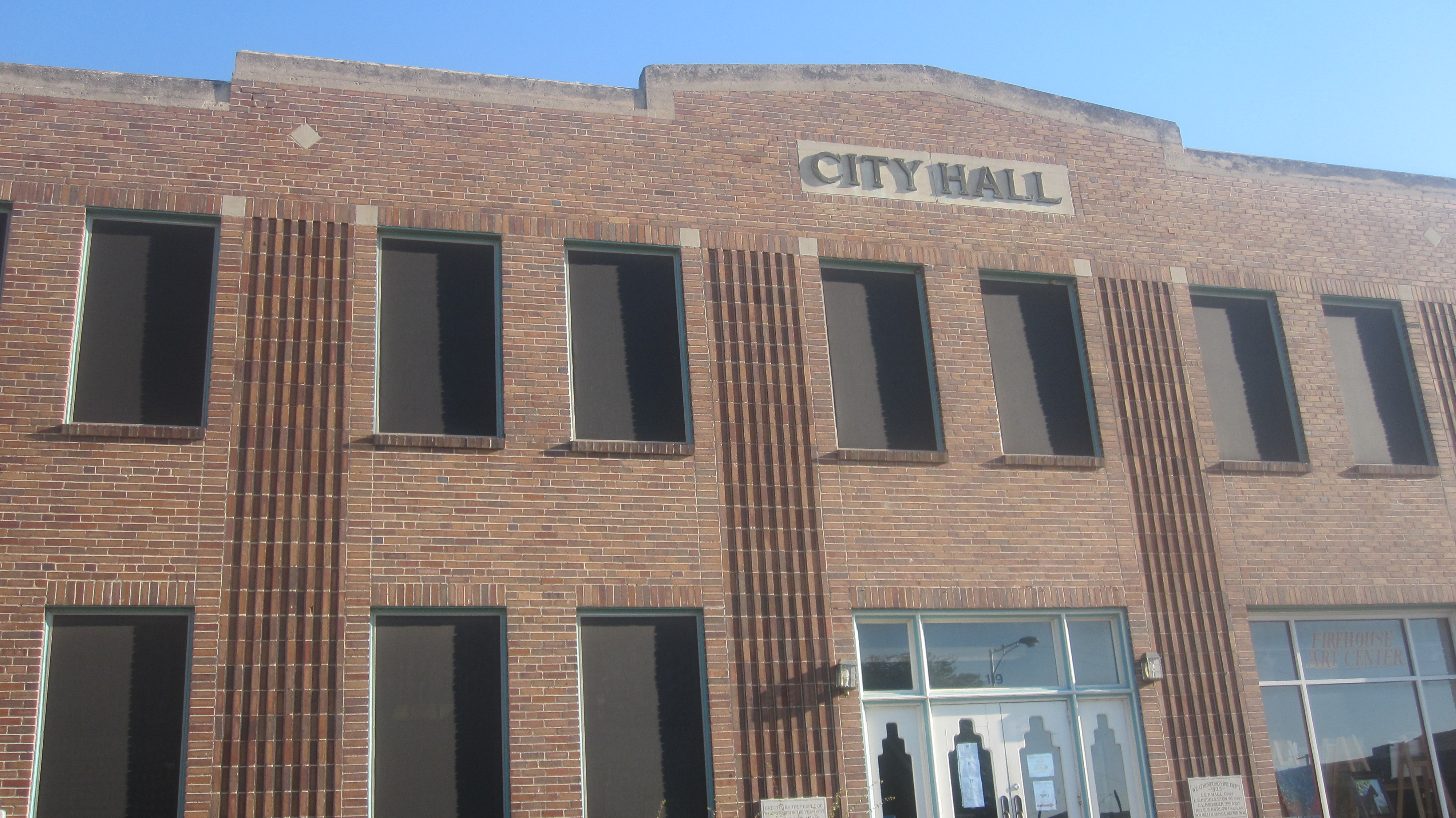 I took photo in Weatherford, TX, with Canon camera.